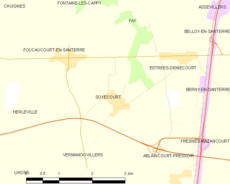 Map of French municipality Soyécourt